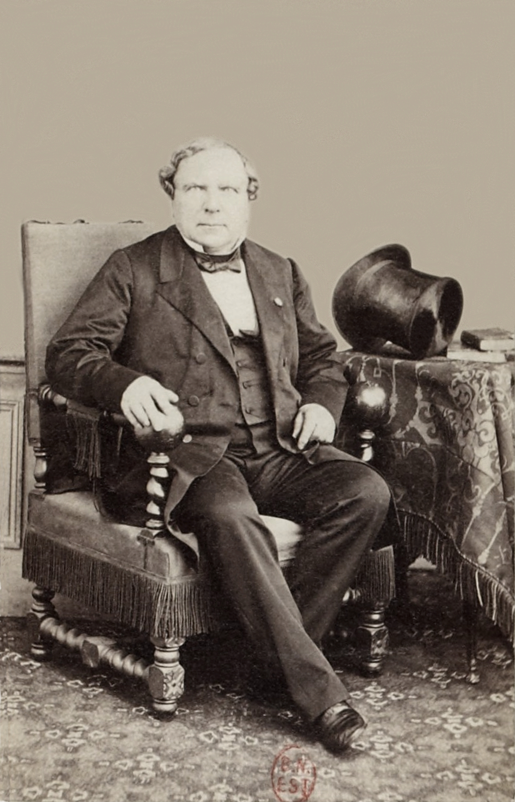 Augustin Thierry (1795 - 1856), french historian